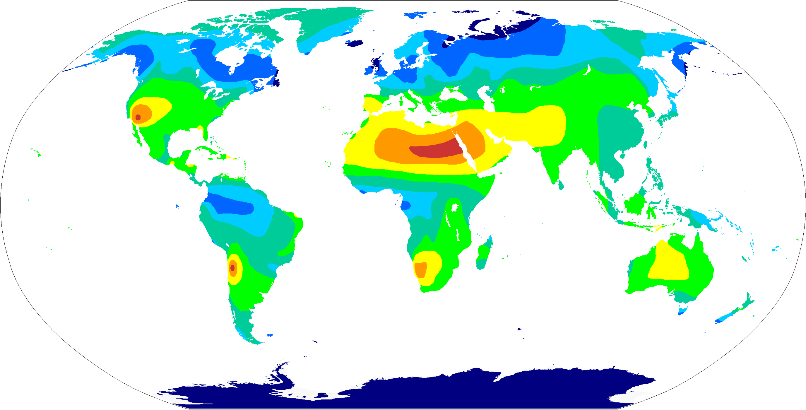 Map of yearly sunshine hours in the world